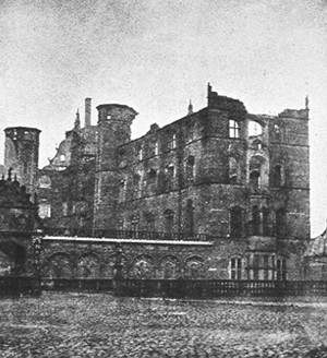 The castle in ruins after the 1859 fire